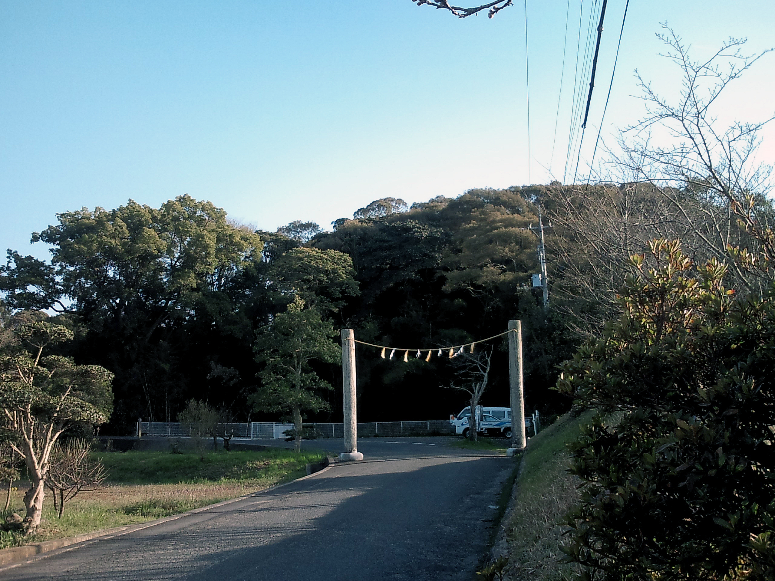 North entrance of Kikaku Park.